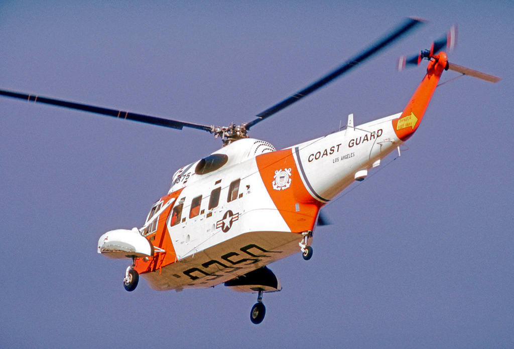 Sikorsky HH-52A Seaguard 1375 of US Coast Guard Los Angeles at LAX in 1973